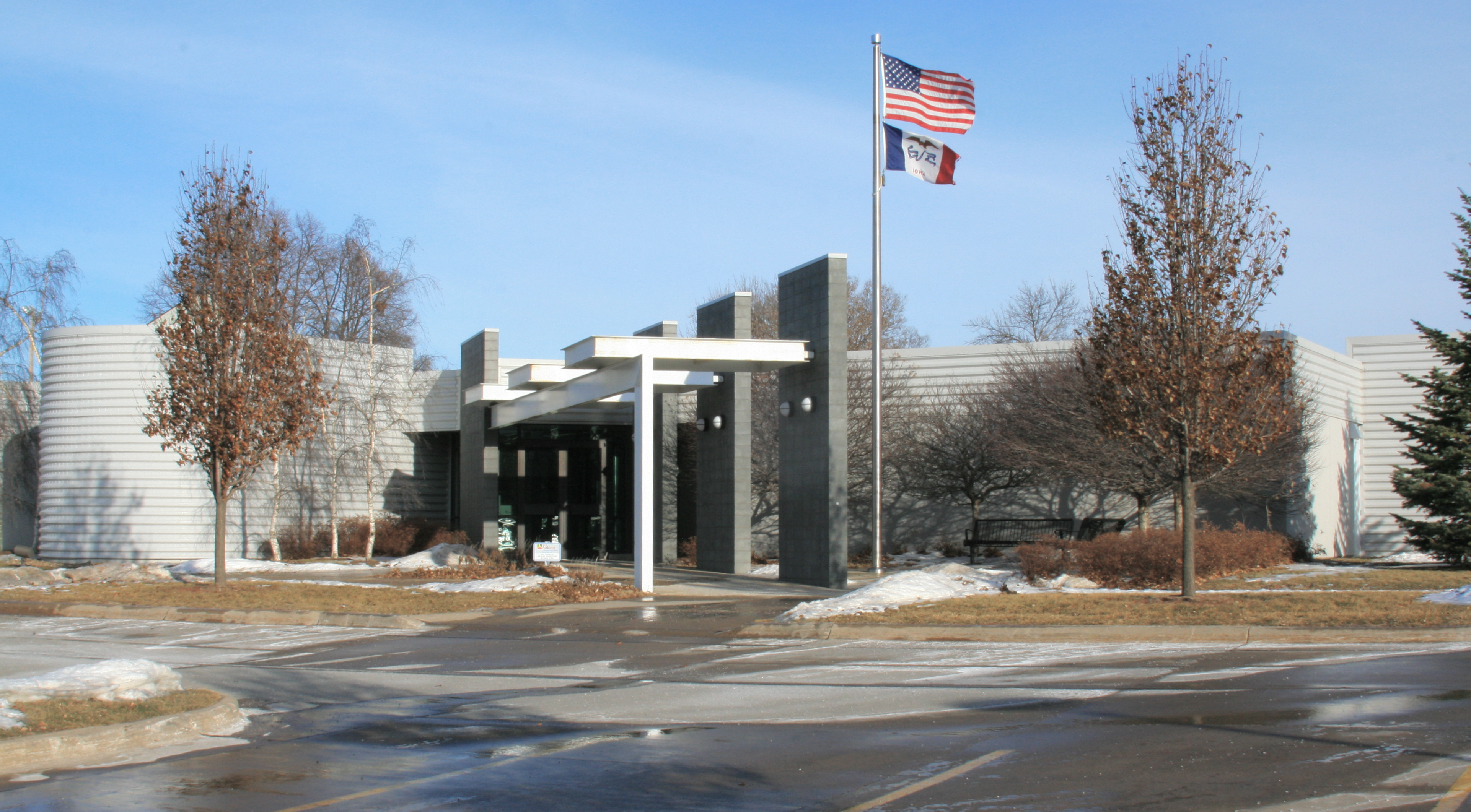 View of Ankeny City Hall